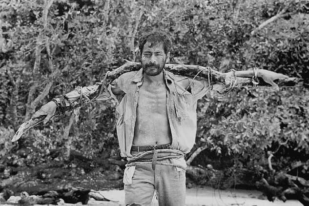 Toshiro Mifune character in filming of Hell in the Pacific (1968).